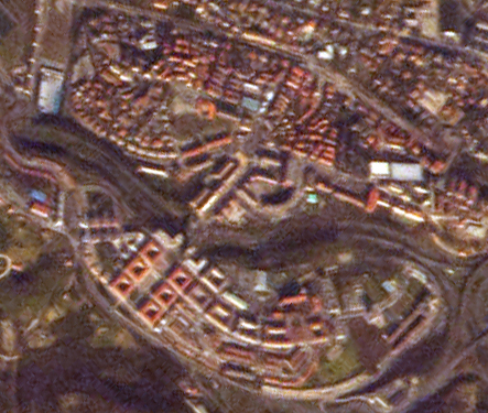 Intxaurrondo, Donostia-San Sebastian. Gipuzkoa, Basque Country.